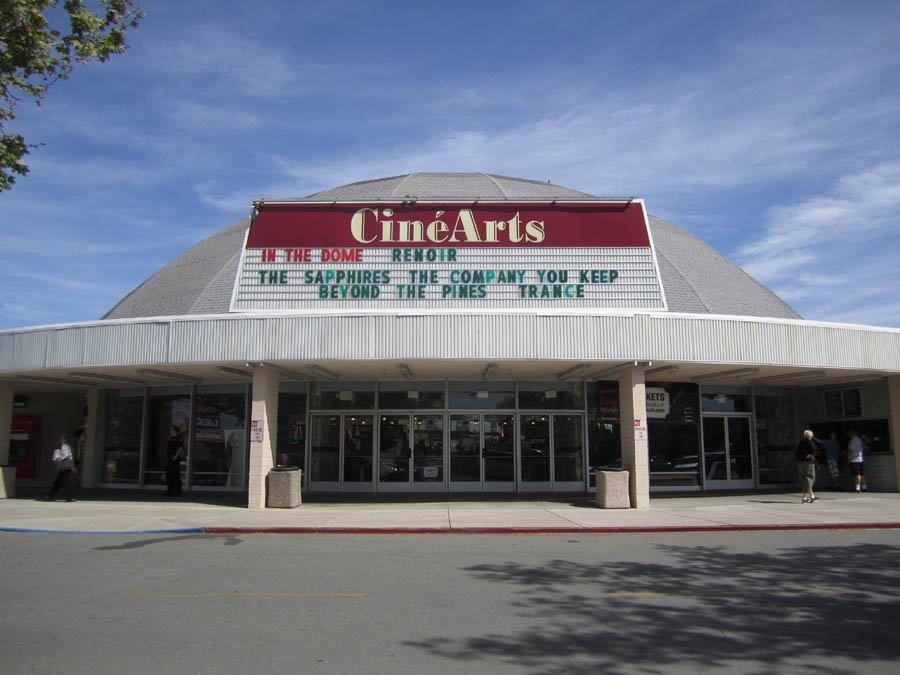 The "Dome" Theater in Pleasant Hill, California, taken in April, 2013, when CinéArts ran the theater, showing independent and foreign films. Designed by Vincent G. Raney, the theater opened on February 21, 1967. In April, 2013, SyWest Development and the Pleasant Hill City Council proposed to demolish the theater and replace it with a Dick's Sporting Goods store. It was demolished in May, 2013.